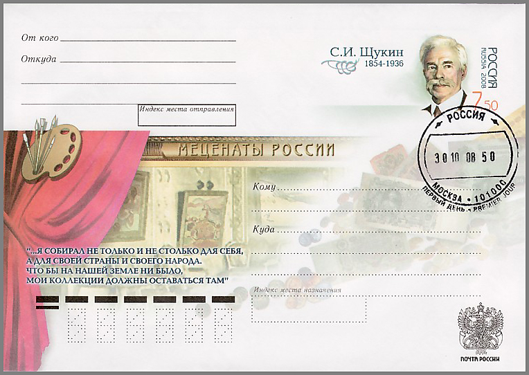 Russia, 2008. Envelope with commemorative stamp (EWCS) № 178. Sergei Shchukin (series "Benefactors and patrons of arts of Russia"). Envelope designer A. Moskovets. First day of issue postmark 10/30/2008 Moscow, Post Office 101000.